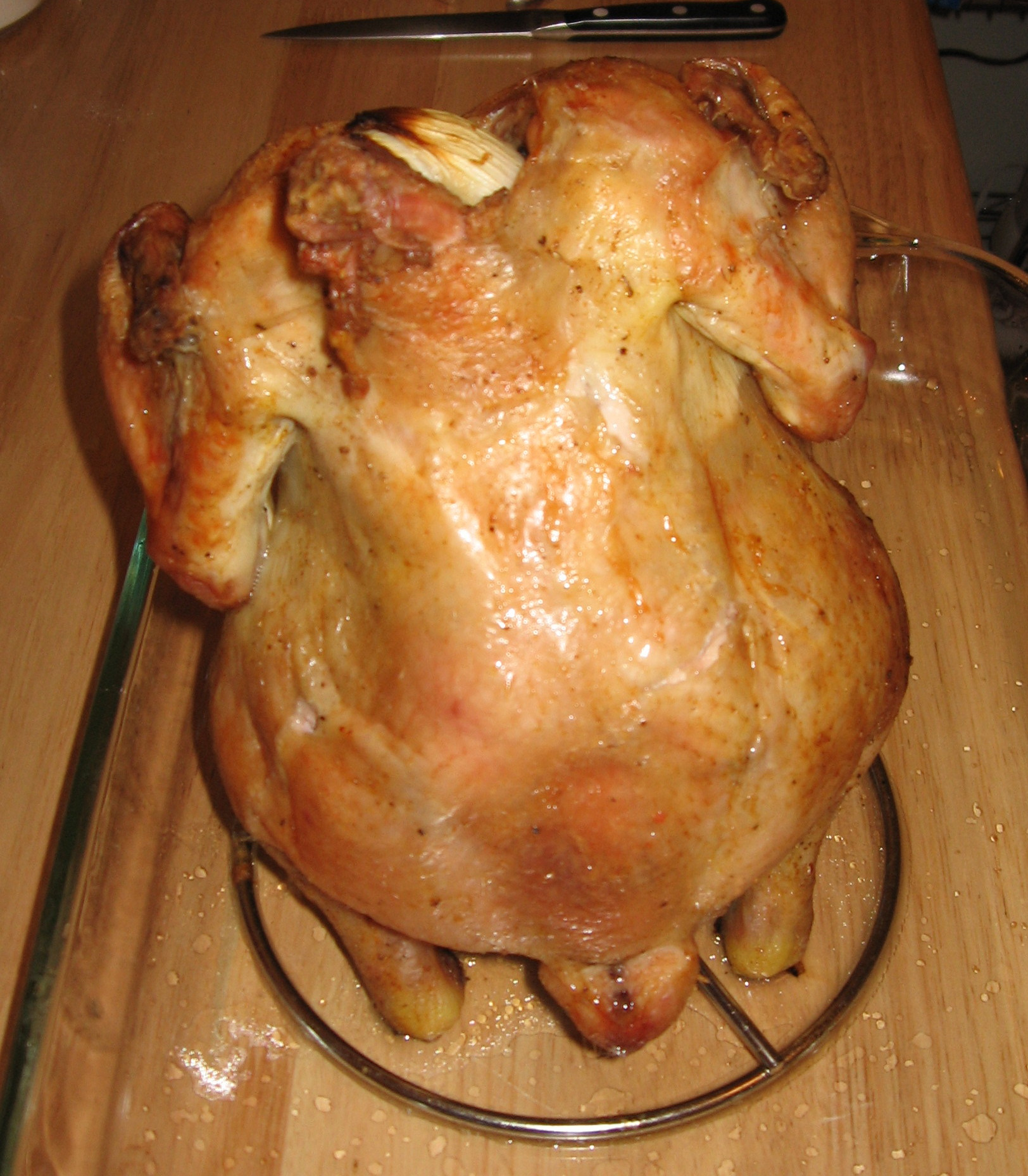 4 lb. chicken cooked at 325 deg F for 1.75 hrs by indirect cooking (beer can chicken)